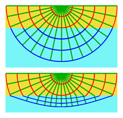 Fermat principle seen as a deformation of a geometry.